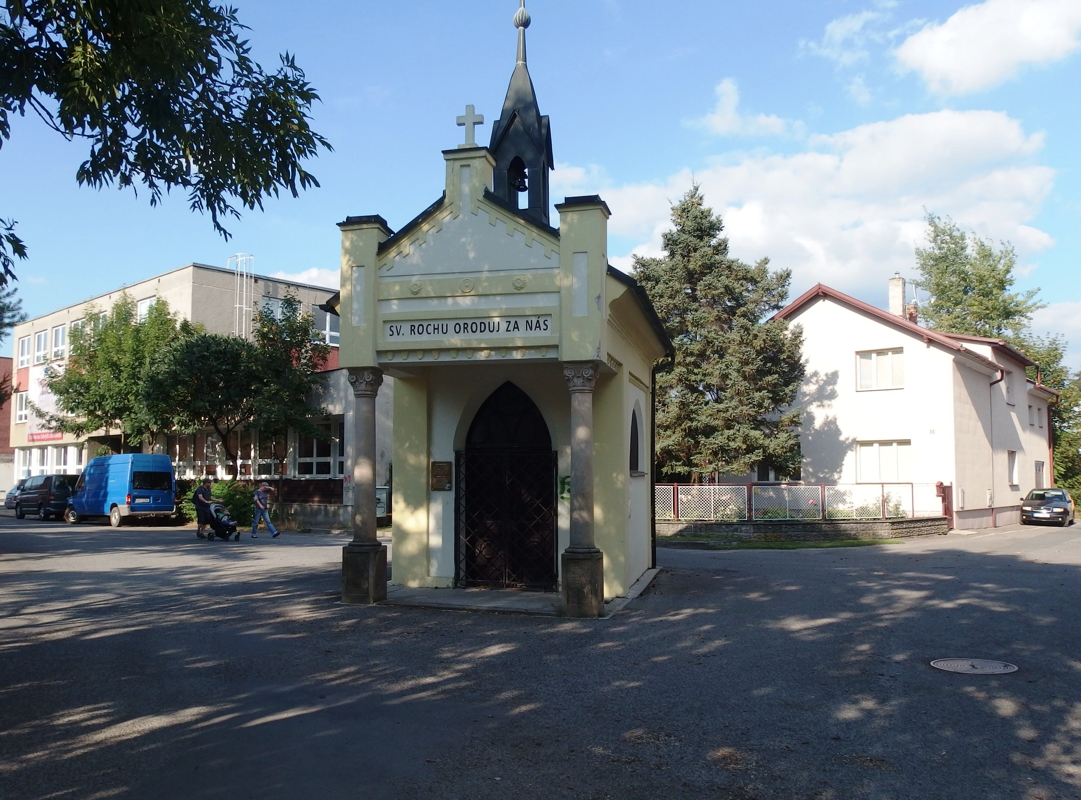 Valašské Meziříčí, Vsetín District, Czech Republic, part Krásno nad Bečvou.